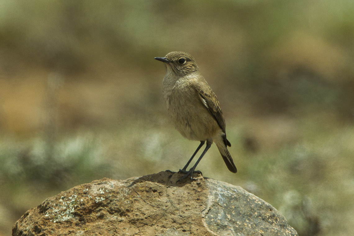 Sickle-winged chat (Emarginata sinuata) in Natal, South Africa